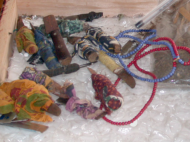 Knives used for female genital mutilation, East Africa - Photo by Michael Rückl, Arzberg - August 2004